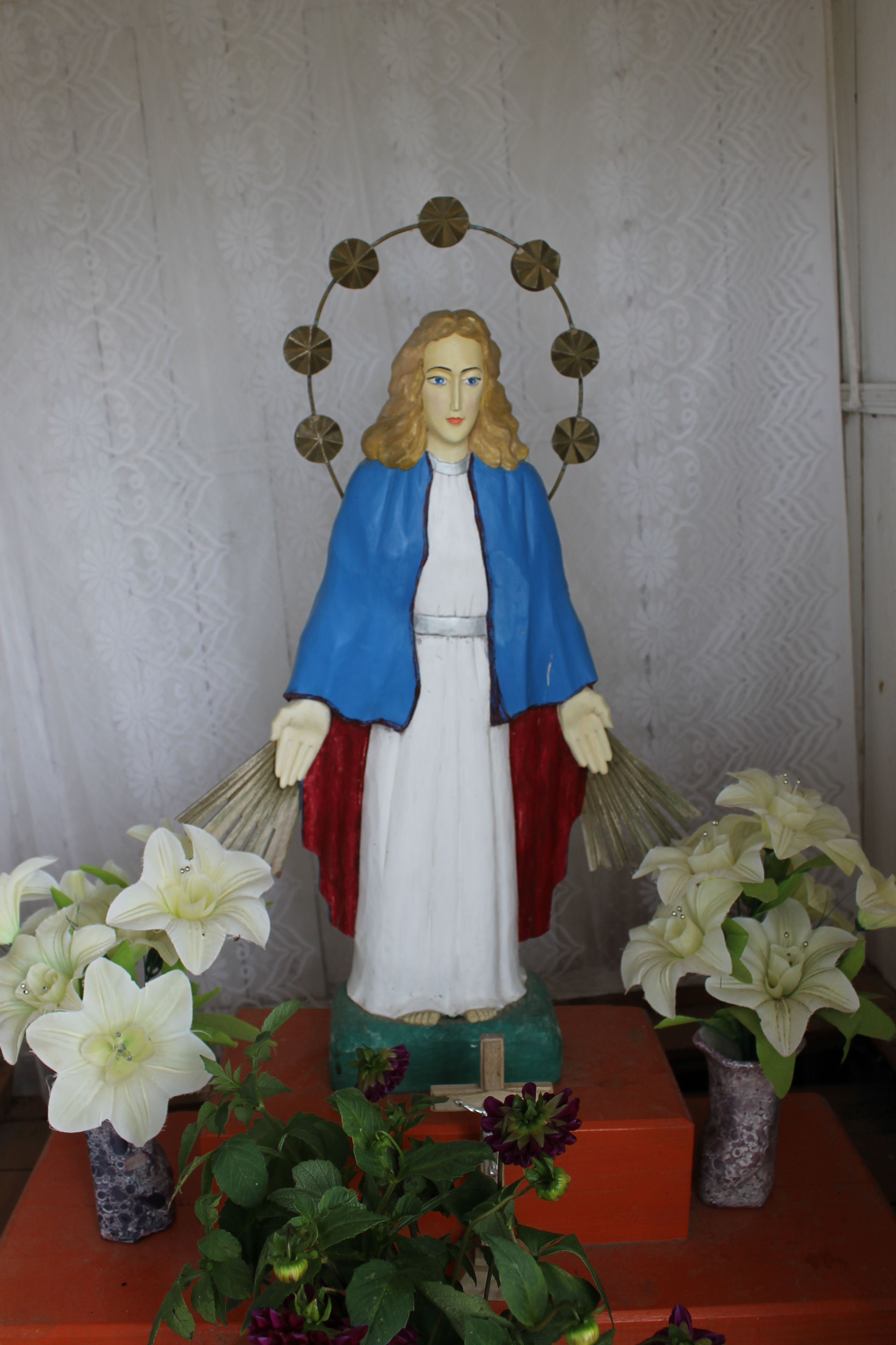 Žeimiai chapel, Kretinga district, LithuaniaLietuvių: Žeimių pakelės koplytėlė, Kretingos rajonas, Lietuva